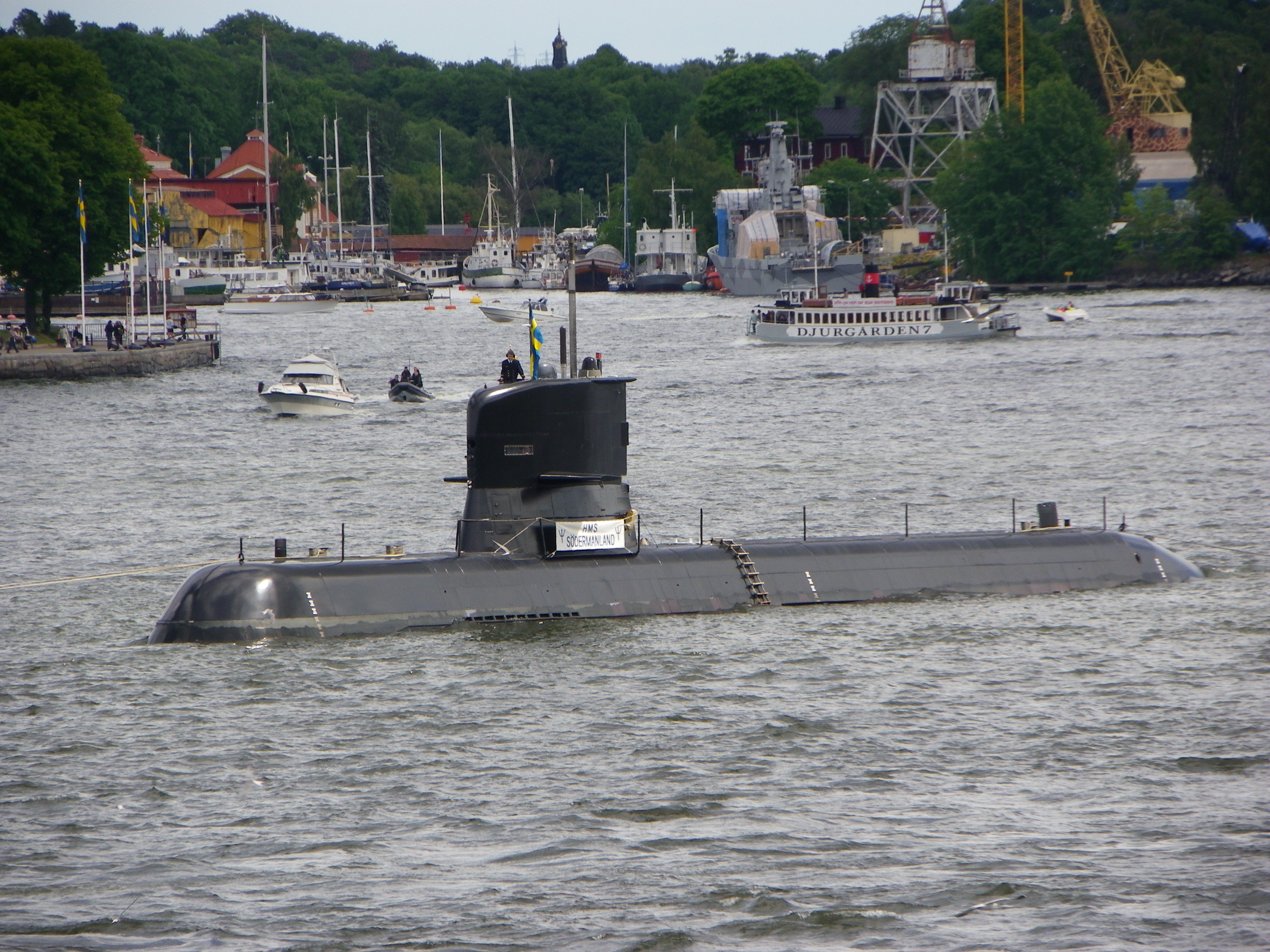 HMS Södermanland in Stockholm 2010 while guarding the Wedding of Victoria, Crown Princess of Sweden, and Daniel Westling